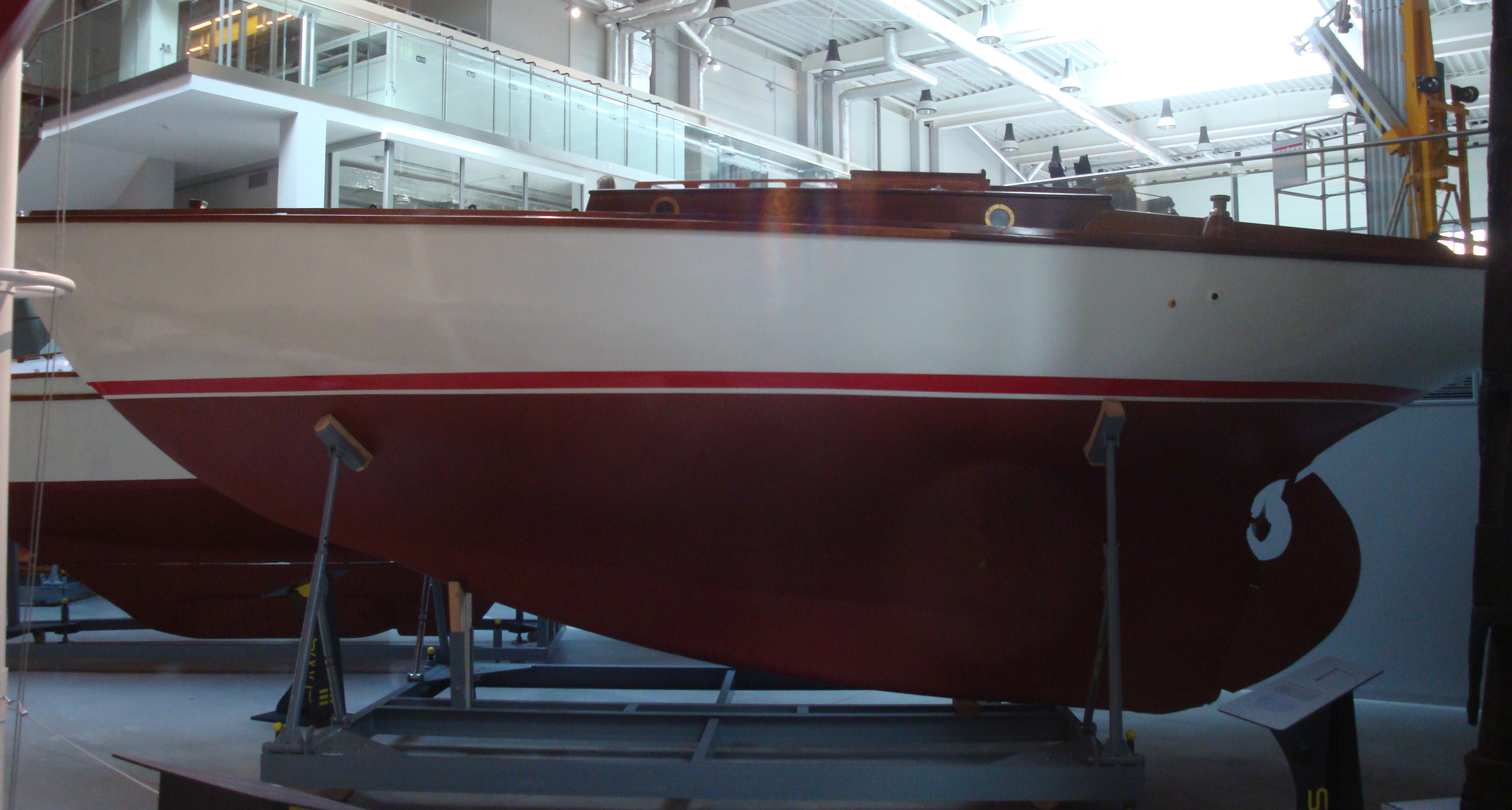 Sailing yacht Opty - boat of Leonid Teliga, the first Pole who single-handedly circumnavigated the globe. Presently on exhibition in Shipwreck Conservation Centre in Tczew (division of National Maritime Museum in Gdańsk, Poland)